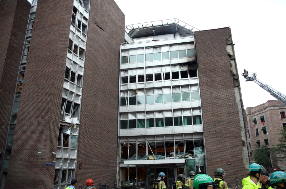 Picture of the damage done to the Norwegian Ministry of Petroleum and Energy after it was bombed in 2011Norsk bokmål: Bilde av skadene på Olje og Energi departementet etter bombingen av regjeringskvartalet i Oslo.